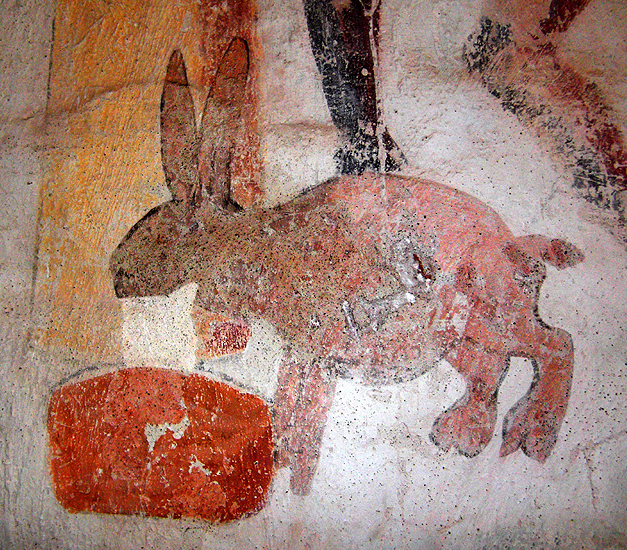 A Mjölkhare (i.e. "Milk hare") spewing up stolen milk in a receptacle. The "Milk hare" was a kind of Bjära or Tilberi, a magical creature in Swedish folklore which was used to steal milk from the neighbours' cows. This is a processed photo of a wall painting from the late 15th century by Albertus Pictor in the porch of Härkeberga Church, Härkeberga Parish, Trögd Hundred, Enköping Municipality, Uppsala County, Uppland, Sweden.